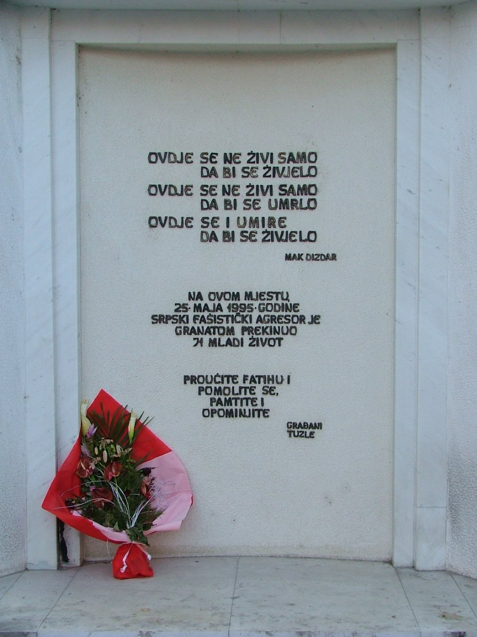 "Here one does not live to live. Here one does not live to die. Here one dies to live." On this place, on the 25th of May 1995, the Serbian fascist aggressor ended the lives of 71 young people. Recite the Al-Fatiha and pray. Remember and warn.